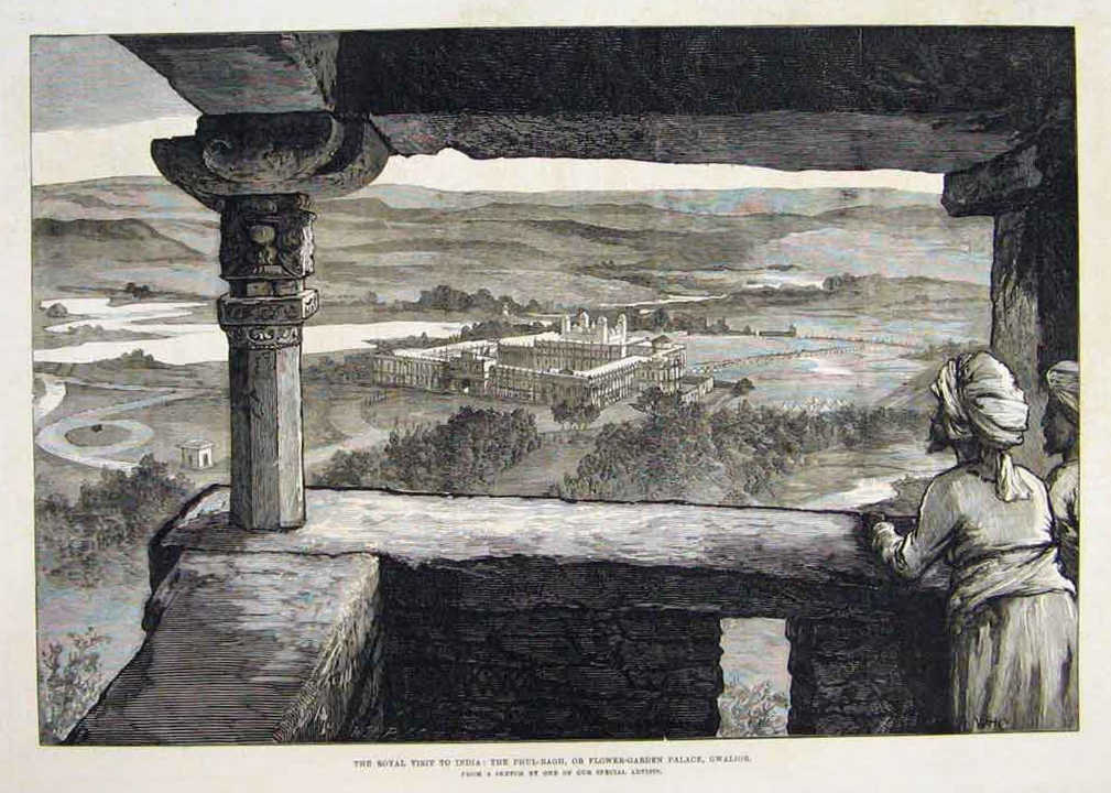 "The Royal Visit to India: the Phul-Bagh, or Flower-Garden Palace, Gwalior," as it is seen from the Fort; from the Illustrated London News, 1876; with very large scans of *the left half* and *the right half* of this engraving